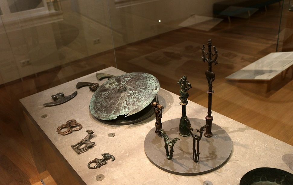 Ancient Persian Metalworks - National Museum of Antiquities - Leiden, Netherlands -- Photo: Persian Dutch Network